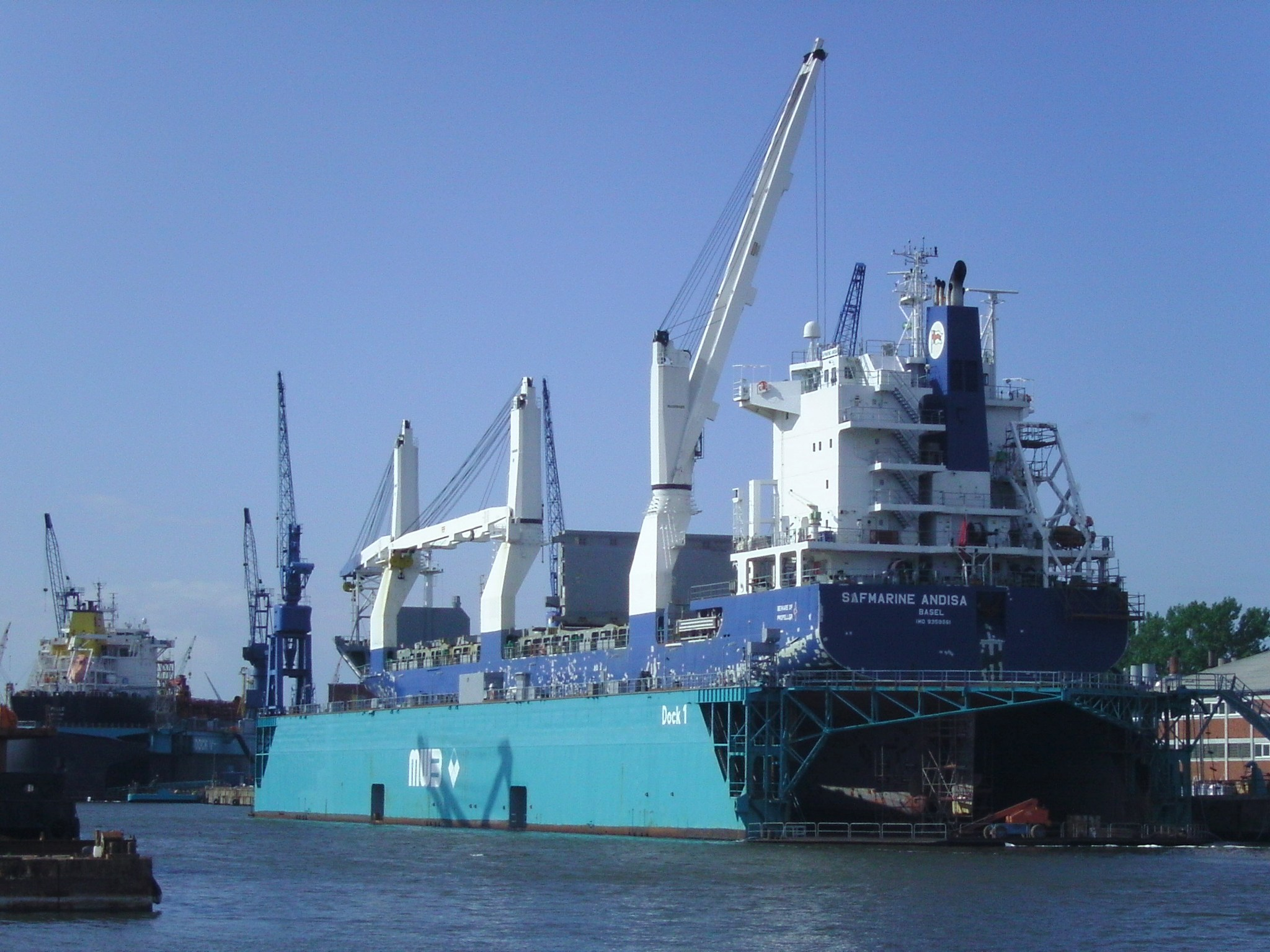 The general cargo ship Safmarine Andisa docked at MWB in Bremerhaven